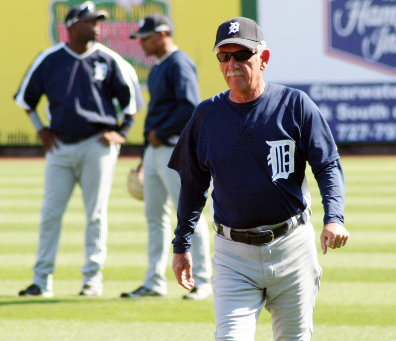 Photograph taken by Googie Man 12:15, 14 March 2007 . . Googie man . . 1300×1122 (380,418 bytes)